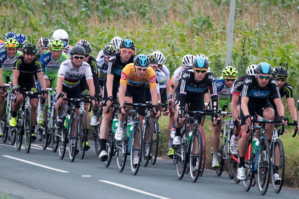 Bradley Wiggins in Tour of Britain